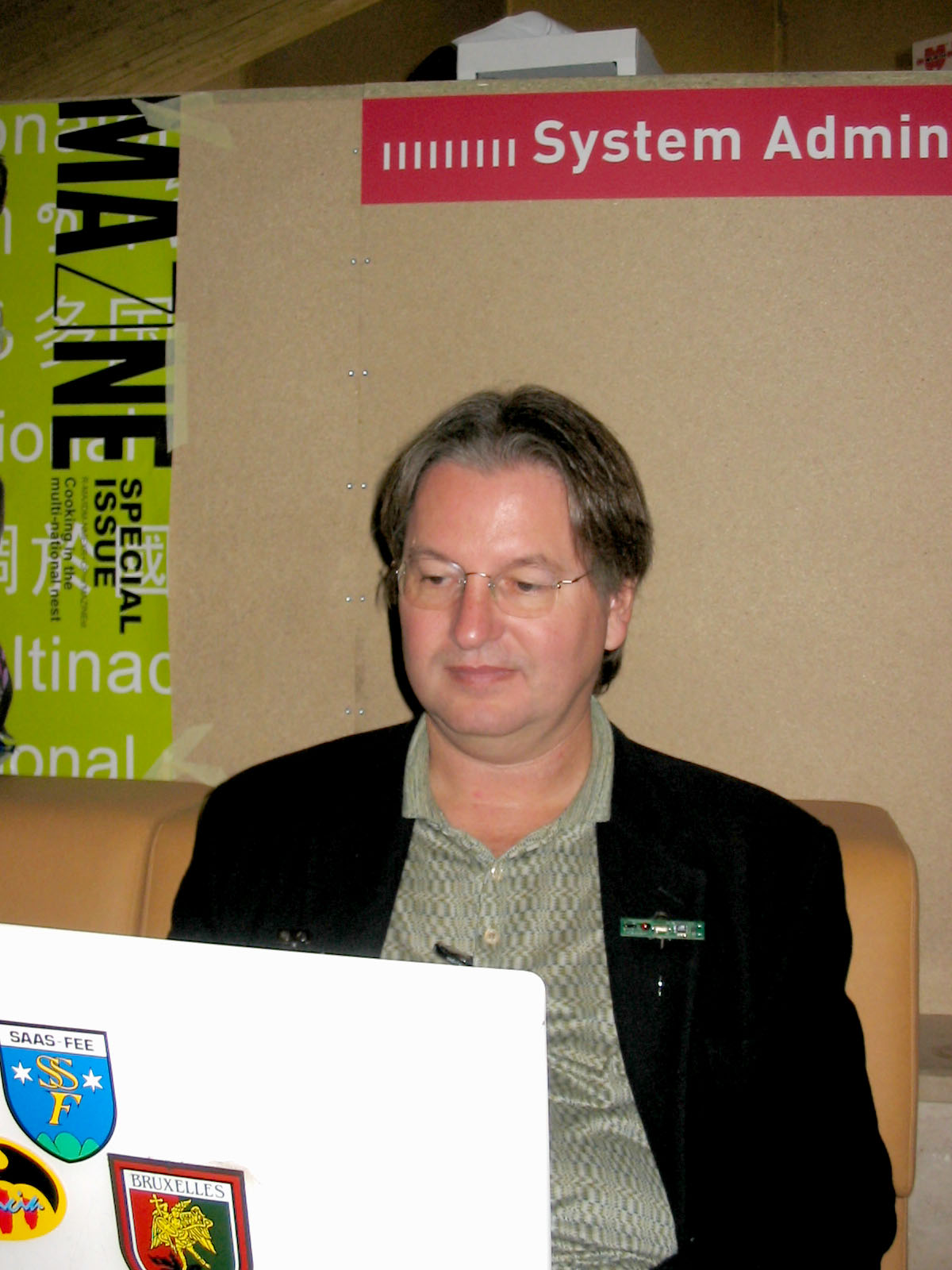 Bruce Sterling at the Ars Electronica Festival